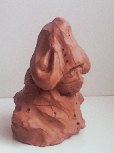 Fremen (Fan Art) from "Dune" by Frank Herbert